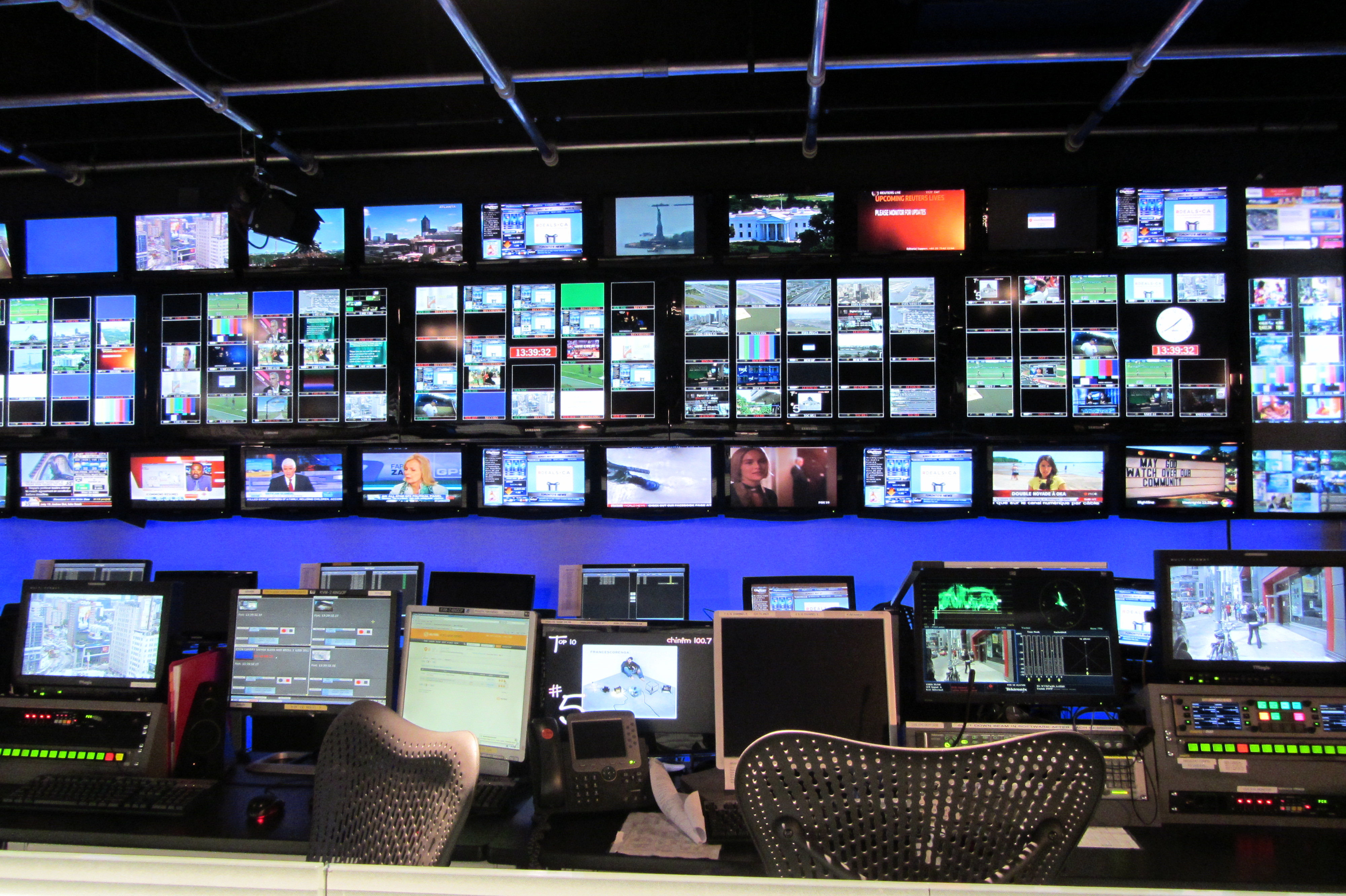 I kind of lost track of all the big rooms full of TV screens and electronic equipment, so I'm not sure what the specific purpose of all this is, other than to impress tour groups. Doors Open Toronto 2012.